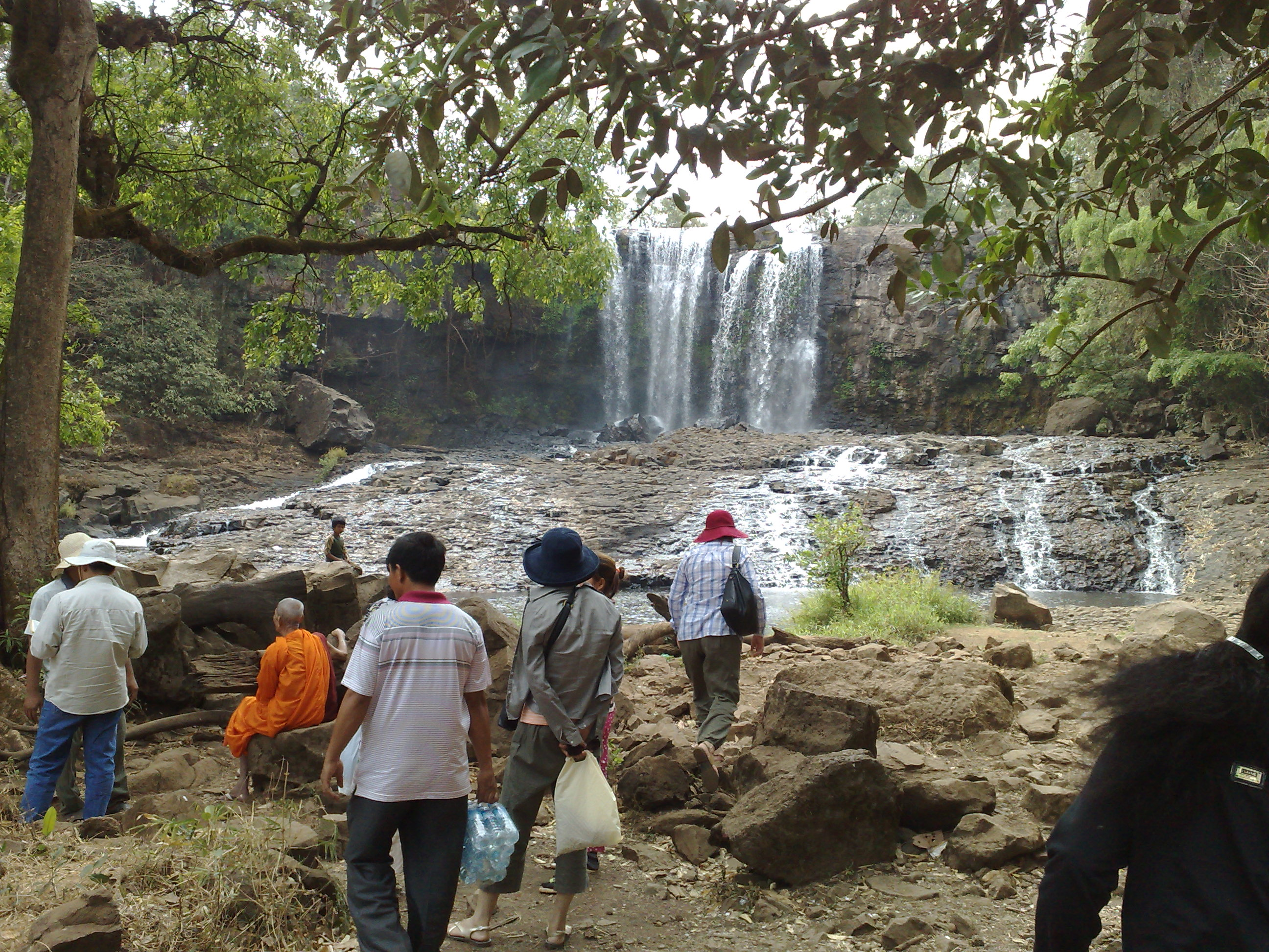 Bou Sra Waterfall near Sen Monorom in the Mondulkiri province in Cambodia's east. Picture taken on 16 March 2011.